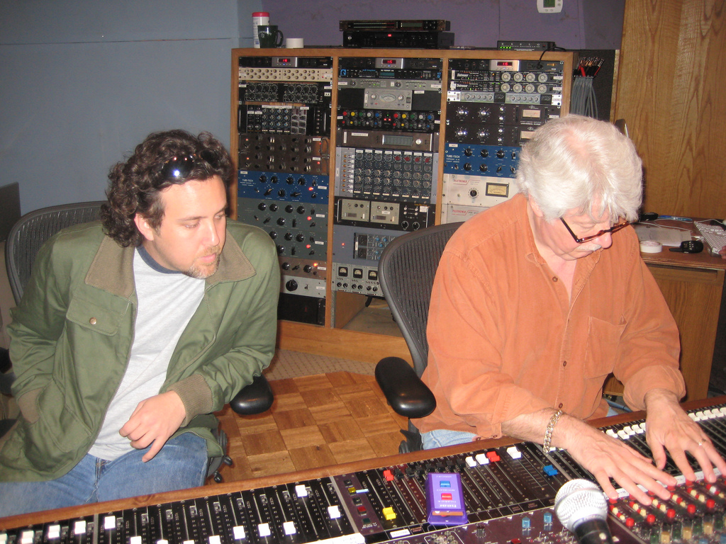 Kerzner and Ken Scott in studio